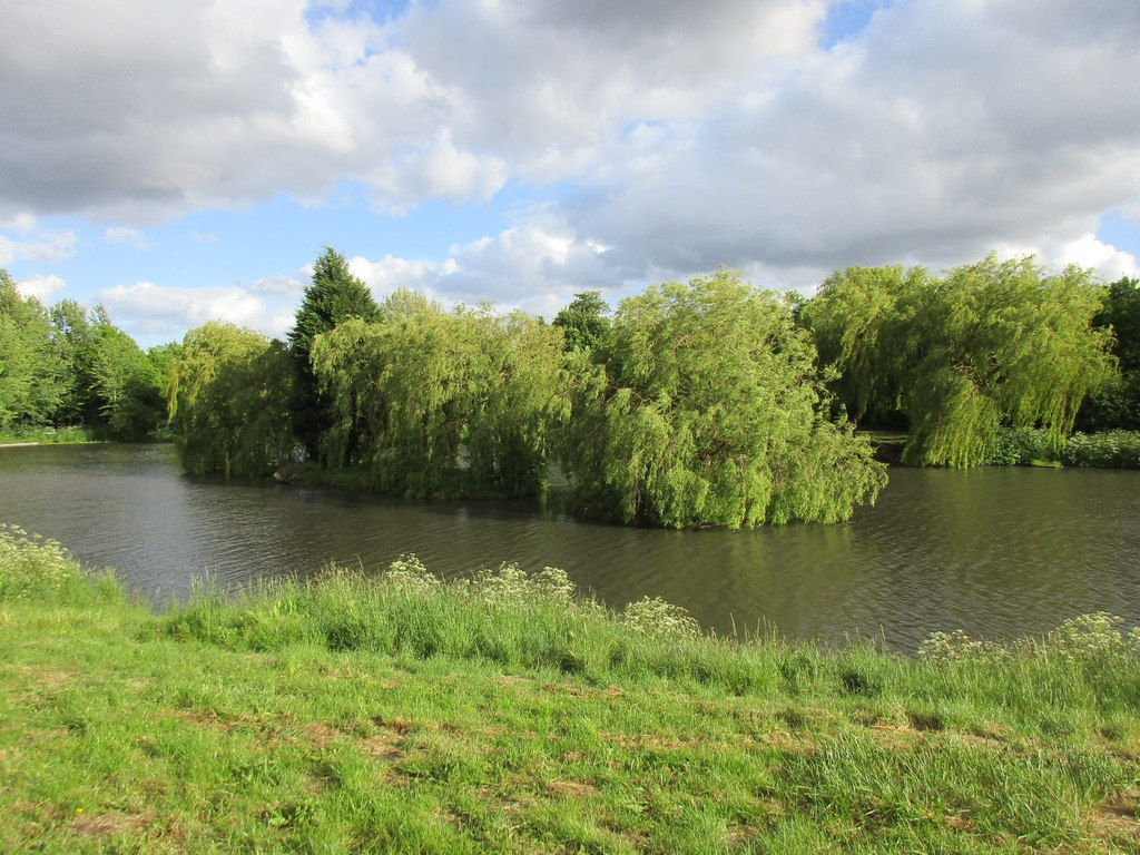 Weeping willow trees on islands in Highfields Lake